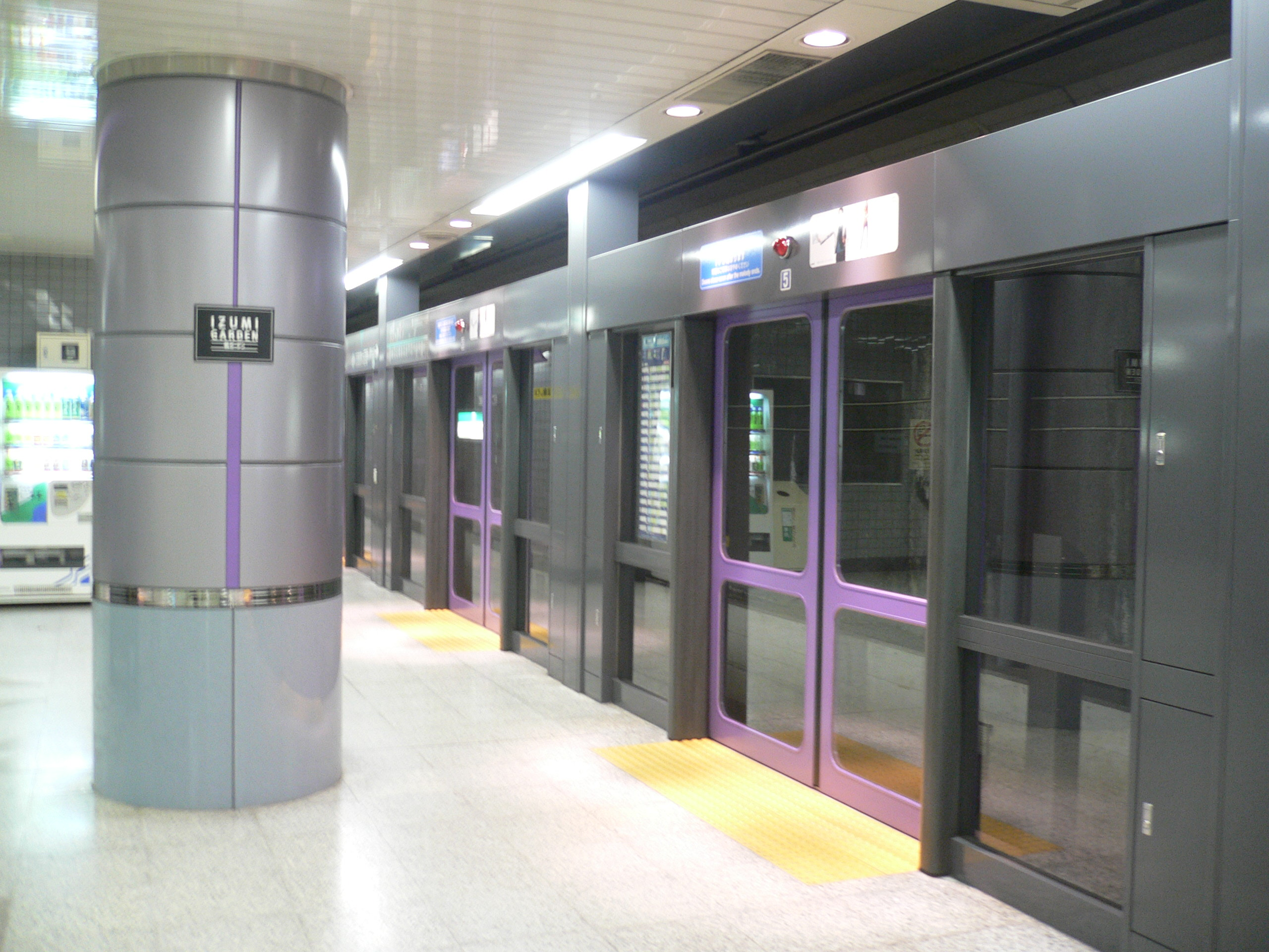 The platform at Roppongi-itchome Station on the Tokyo Metro Namboku Line in Tokyo, Japan